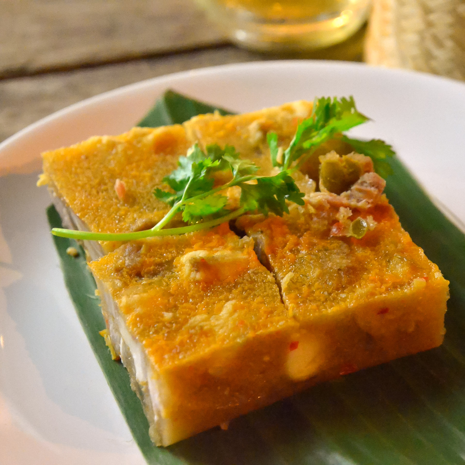 Kaeng kradang (Thai script: แกงกระด้าง) is a northern Thai pork curry which has been set in to a jelly, similarly to an "aspic".